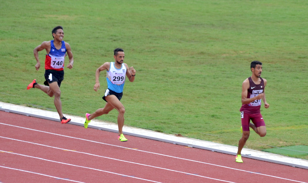 Athletes during 22nd Asian Athletics Championships in Bhubaneswar.